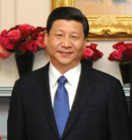 Secretary Clinton and Vice President Biden hosted a lunch in honor of Vice President of the People's Republic of China, His Excellency Xi Jinping, at the Department of State.